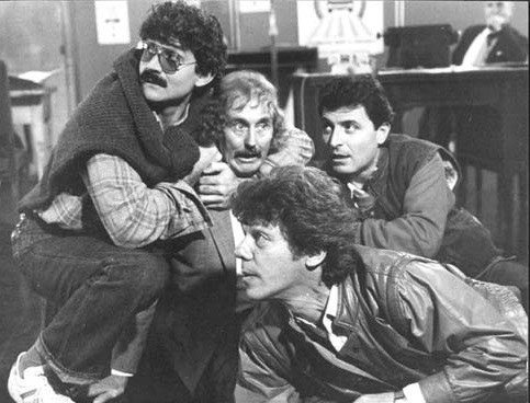 Brigada explosiva contra los ninjas - pelicula Argentina